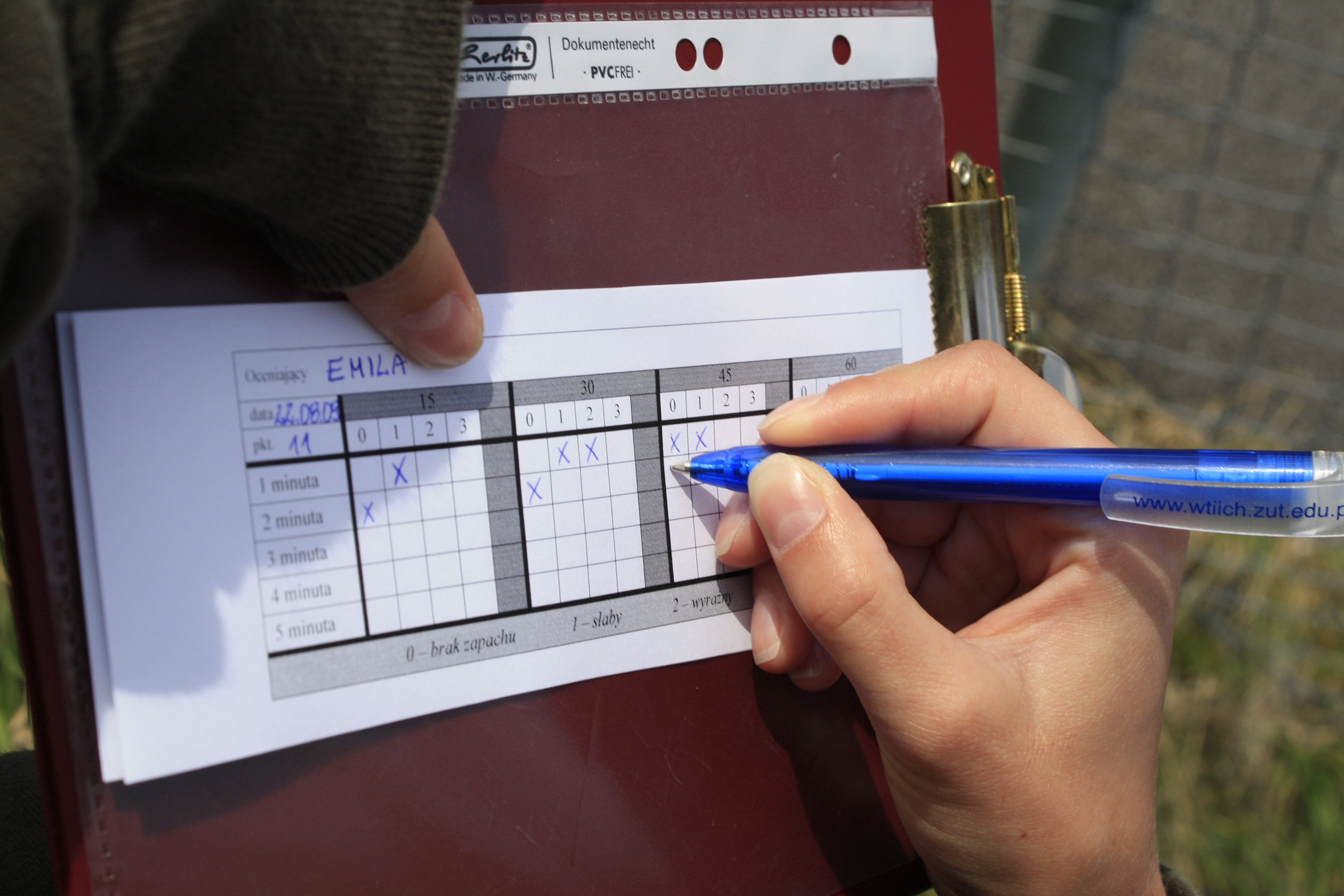 Field scaling of odour intensity - individual card